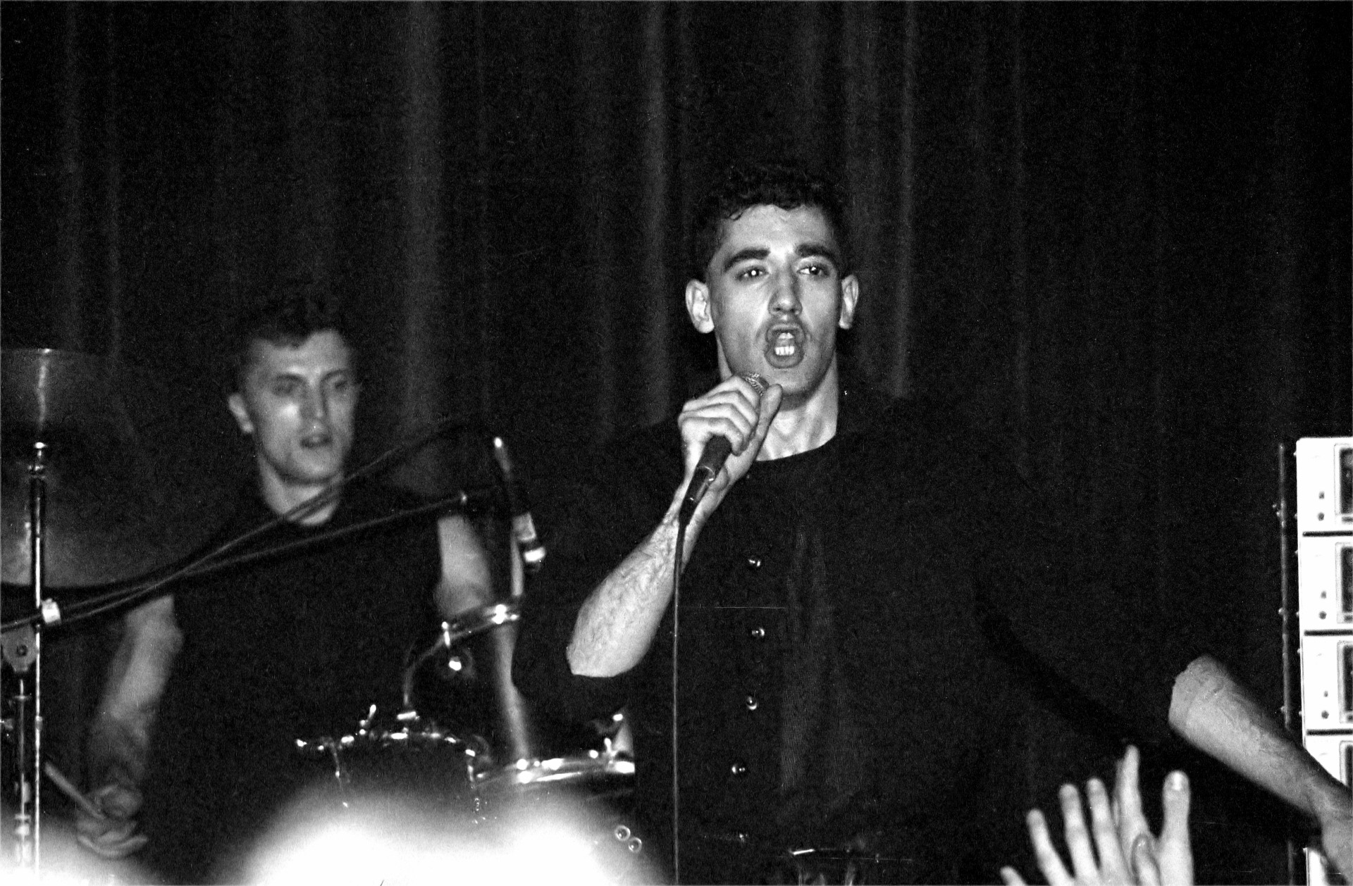 Gabi Delgado-Lopez and Robert Görl - live on stage - November 7th, 1981